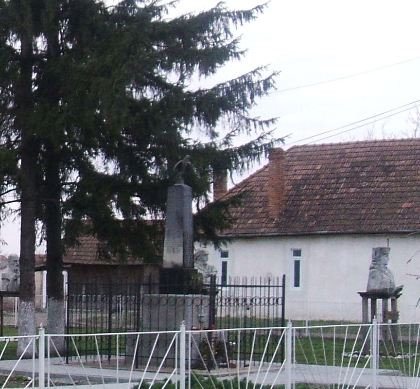 Monument of World War victims Glodeni/Marossárpatak